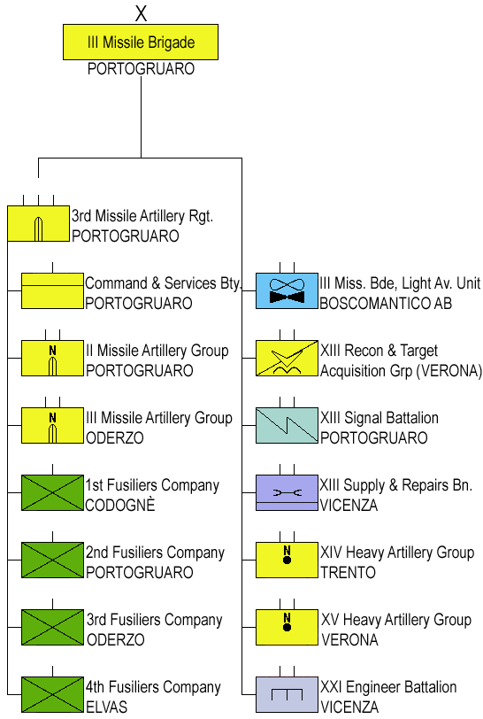 Structure of the Italian Army III Missile Brigade in 1974